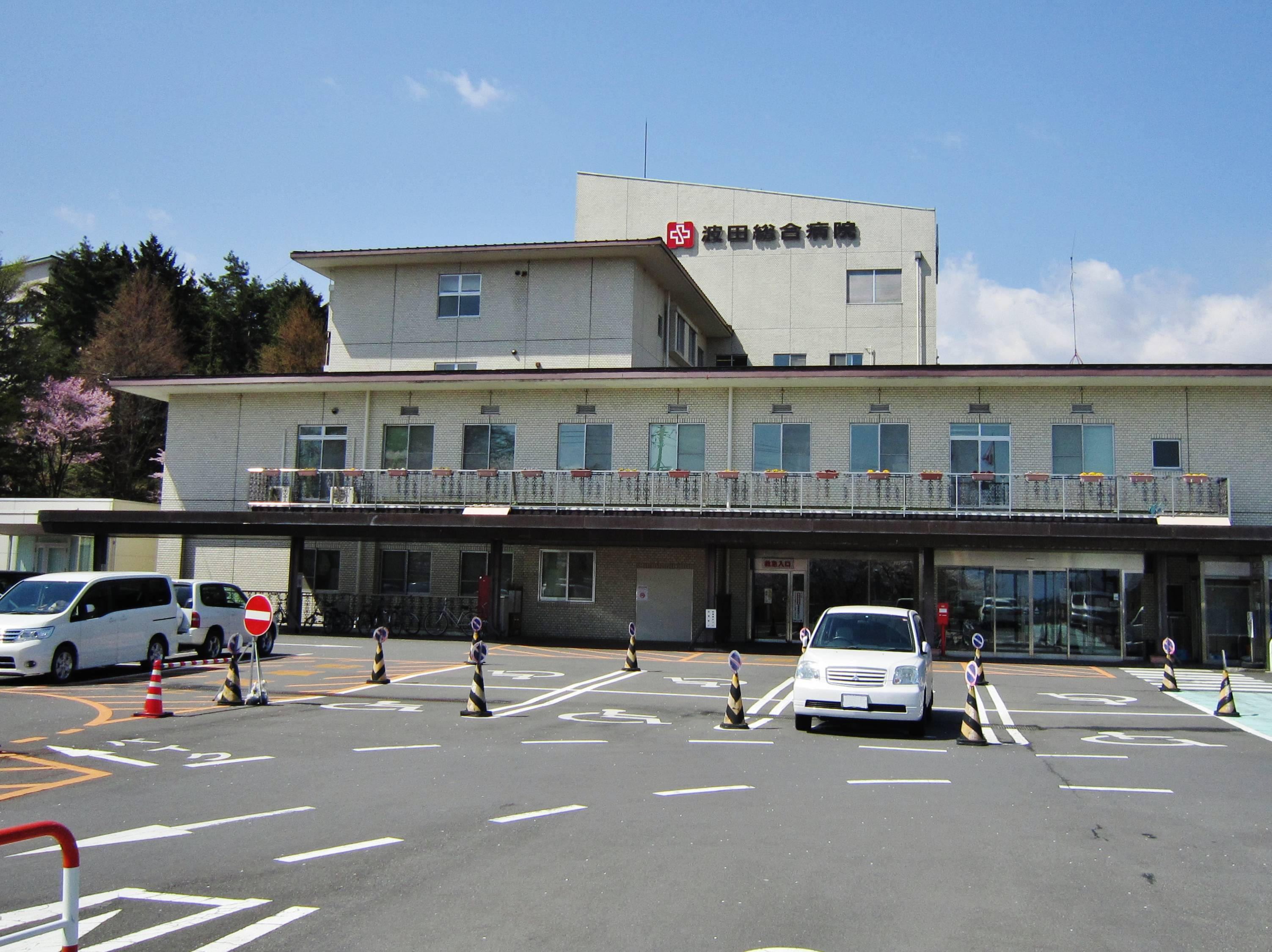 Hata General Hospital.